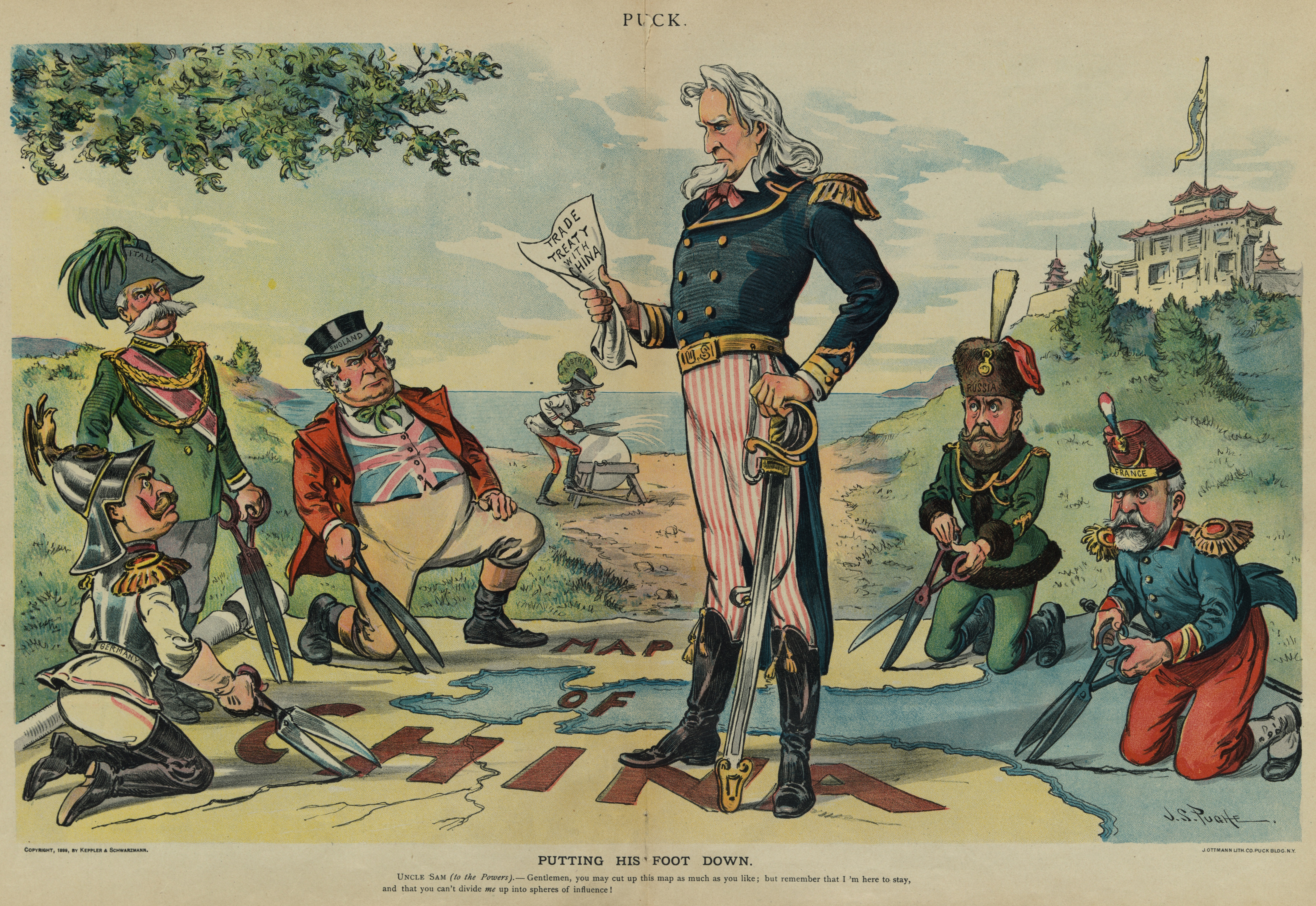 Uncle Sam stands on map of China which is being cut up by German, Italy, England, Russia, and France (Austria is in backgr. sharpening shears); Uncle Sam clutches "Trade Treaty with China" and says: "Gentleman, you may cut up this map as much as you like, but remember that I'm here to stay, and that you can't divide me up into spheres of influence".